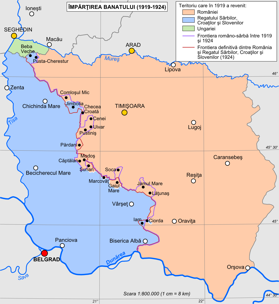 The dividing of the Banat (1919-1924)